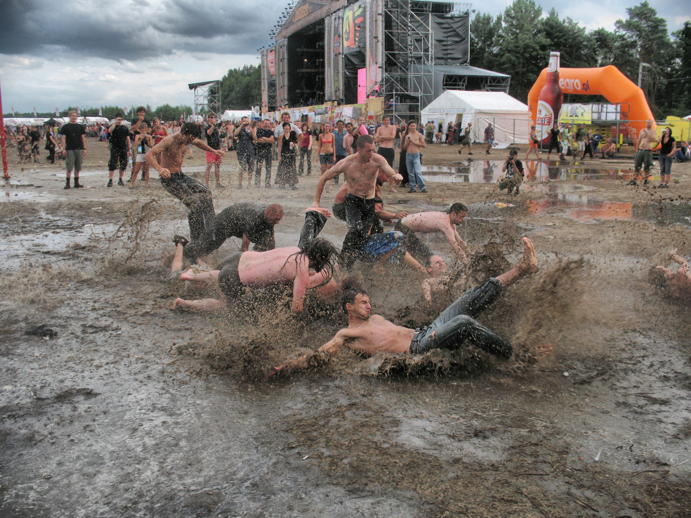 Woodstock Gathering Festival. Mud in front of the main stage